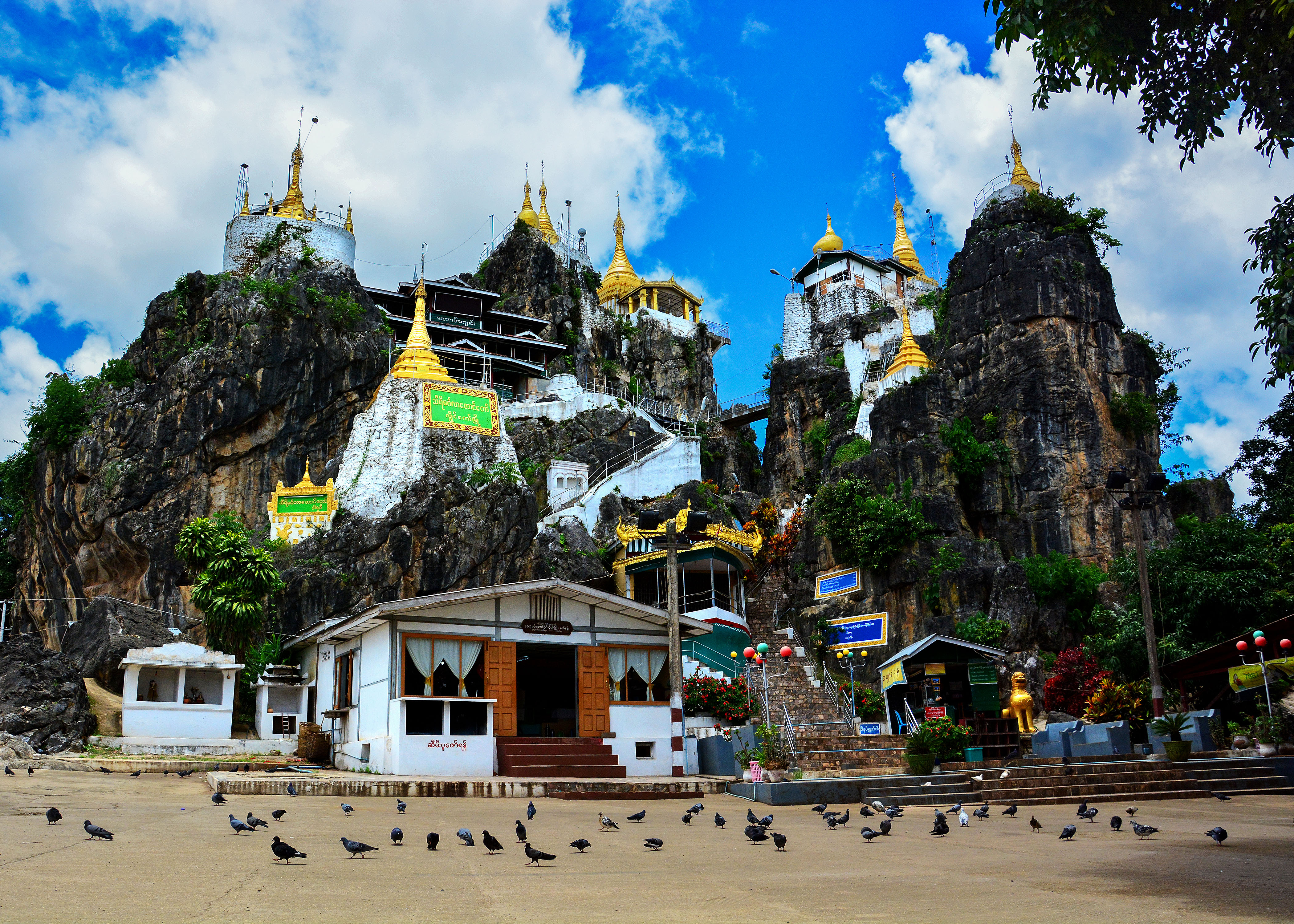 Thiri Mingalar Taung Kwe Pagodas is located at Loikaw, Kayah State of Myanmar